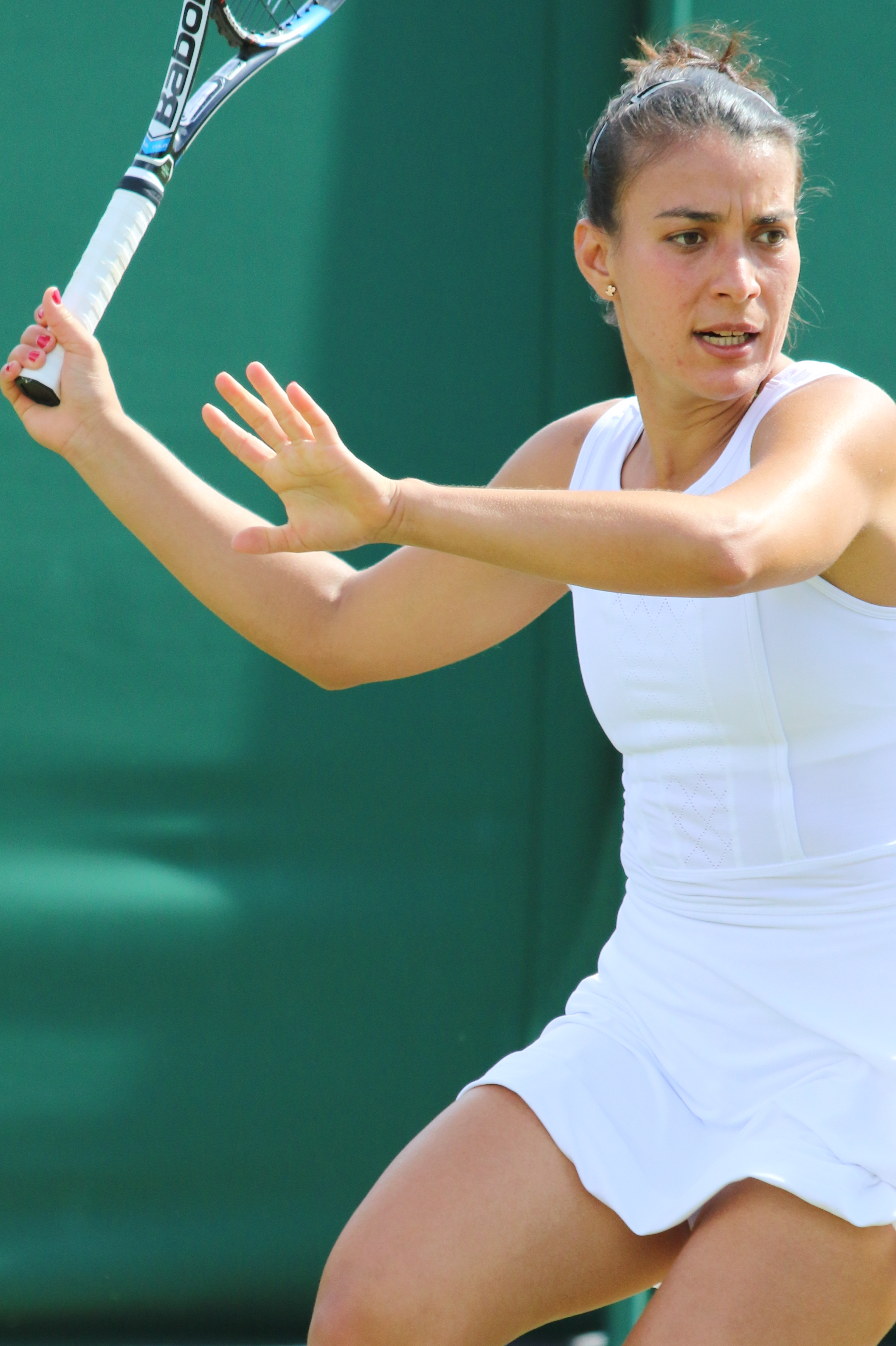 Cepede Royg WM17 (7)